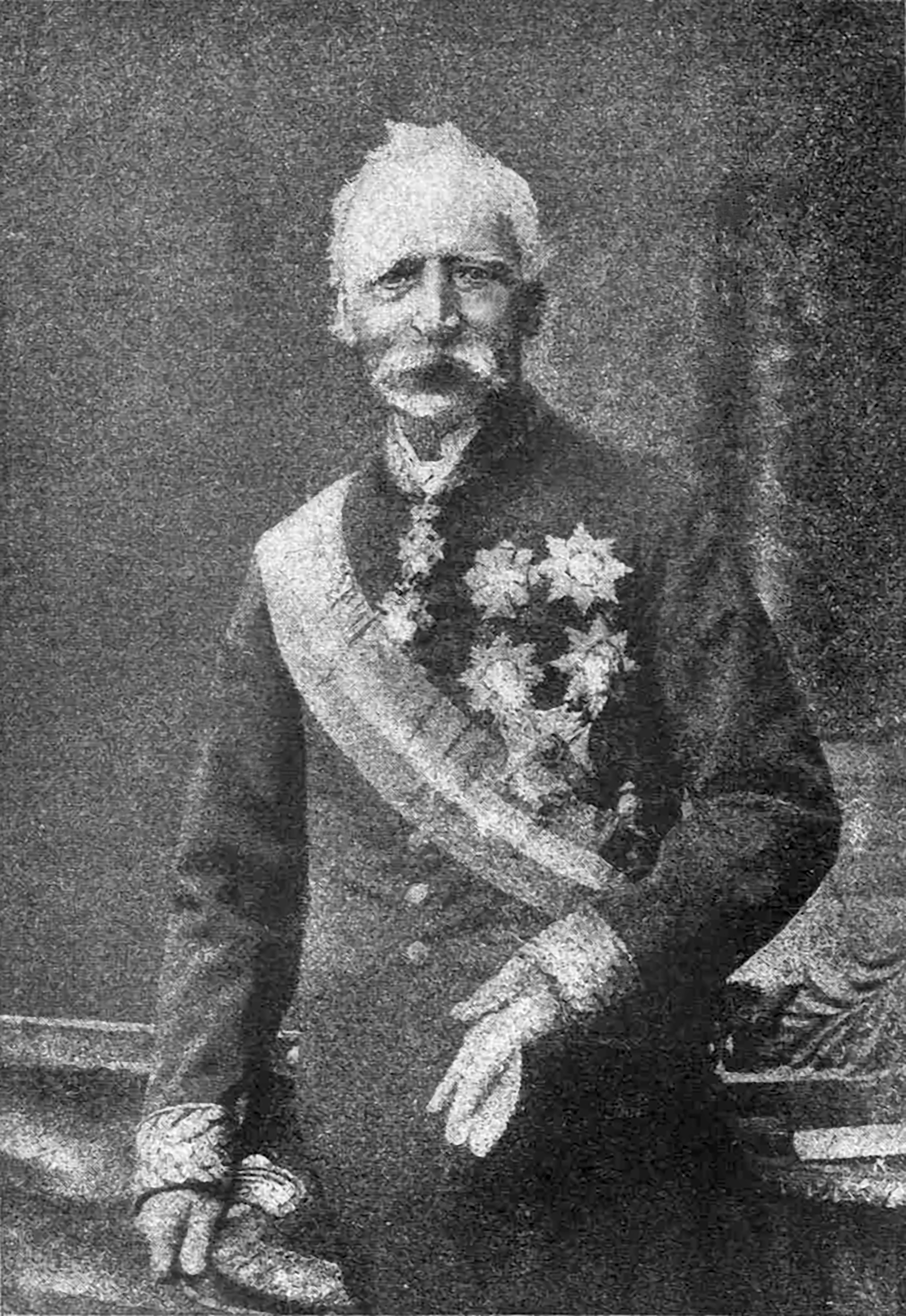 Poikilē stoa: ethnikē eikonographēnenē epetēris ... Etos 1-16, 1881-1914 (1894) Author: Ioannes A. Arsenēs , Michael A . Raphaelobits Volume: 10 Publisher: Estia Year: 1894 Possible copyright status: NOT_IN_COPYRIGHT Language: Greek Digitizing sponsor: Google Book from the collections of: Harvard University Collection: americana